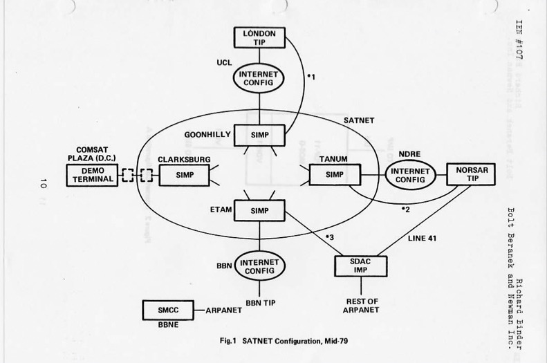 SATNET diagram, mid 1979. From IEN # 107, "SATNET Reconfiguration Plan", by Richard Binder, Bolt Beranek and Newman Inc., May 1979.